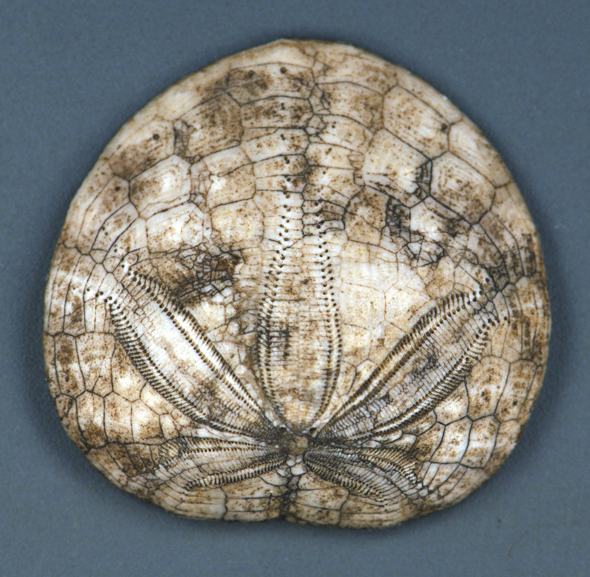 Dendraster gibbsii fossil sand dollar (4.3 cm across) from the Pliocene of Caifornia, USA. Here’s a nicely preserved fossil sand dollar from California. It has been prepared by air abrasion to better show the plate boundaries. This is Dendraster gibbsii, first described by Auguste Rémond in the 1860s. This species is relatively common in the Siphonalia zone of the Etchegoin Formation (Lower Pliocene). It comes from the Kettleman Hills of California, USA. Classification: Animalia, Echinodermata, Echinozoa, Echinoidea, Clypeasteroida, Scutellina, Dendrasteridae Stratigraphy: Etchegoin Formation, Lower Pliocene Locality: Kettleman Hills, California, USA